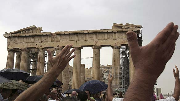 Greek Hellens, adherents of Hellenism, members of the YSEE, Supreme Council of Ethnikoi Hellenes, engaged in a worship ceremony.